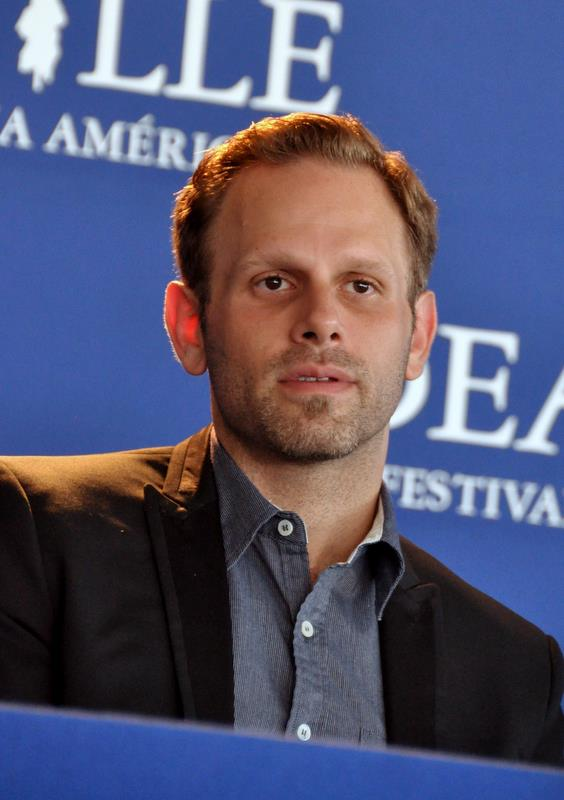 Matt Ruskin at the Deauville Film Festival